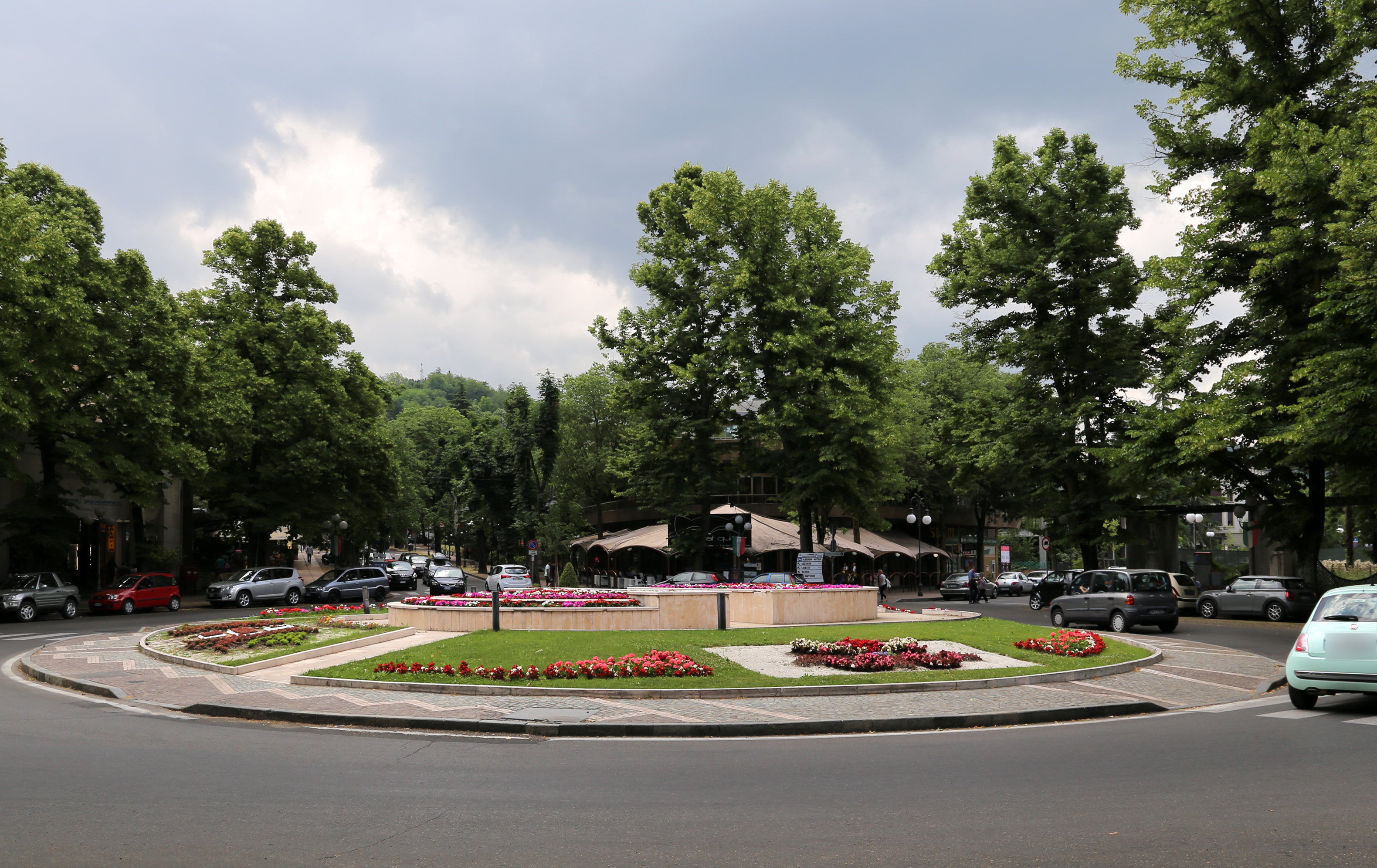 Buildings in Salsomaggiore Terme